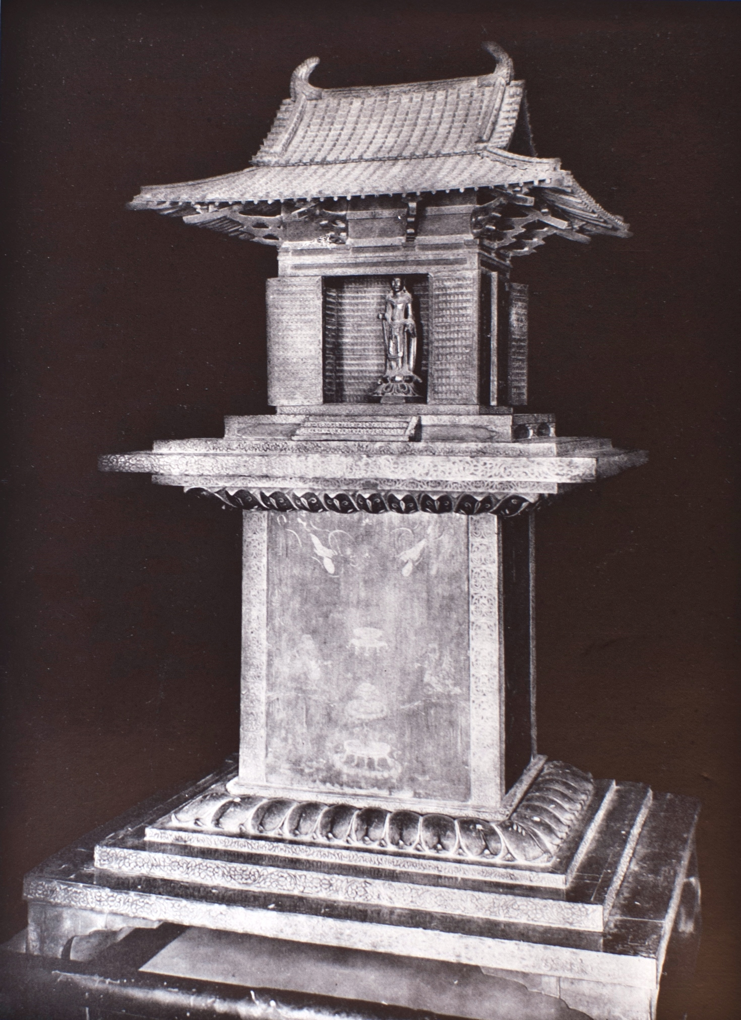 Tamamushi Shrine, Horyuji, Nara Prefecture, Japan